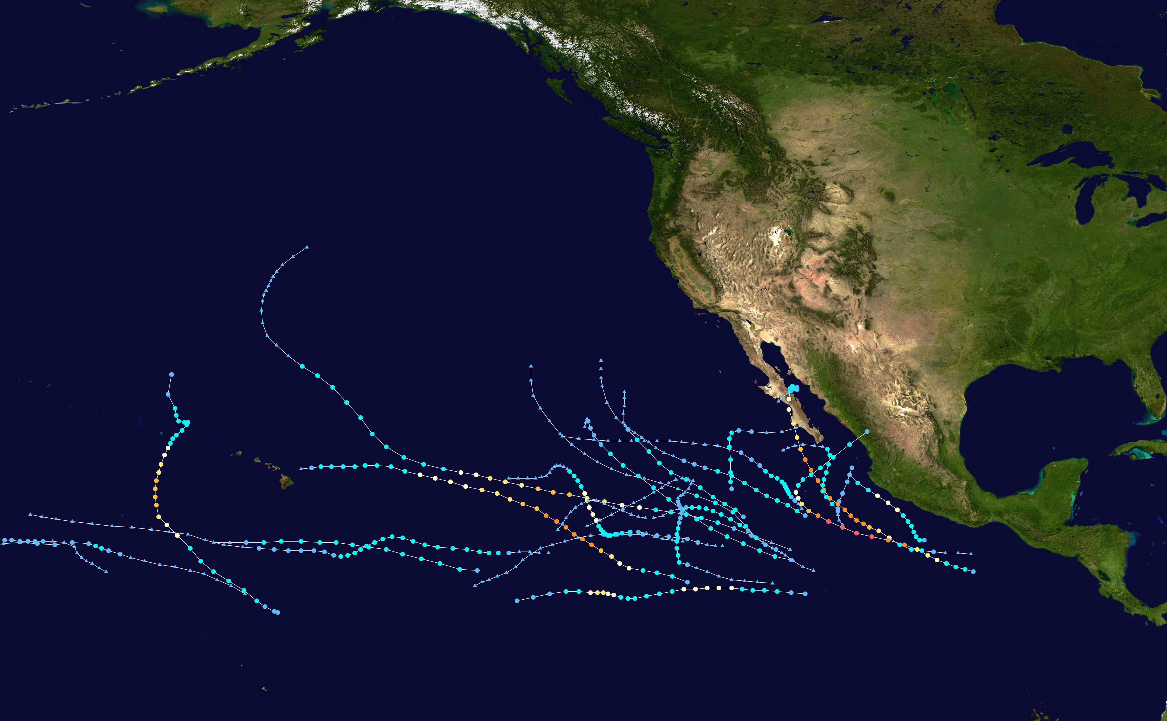 This map shows the tracks of all tropical cyclones in the 2009 Pacific hurricane season. The points show the location of each storm at 6-hour intervals. The colour represents the storm's maximum sustained wind speeds as classified in the Saffir-Simpson Hurricane Scale (see below), and the shape of the data points represent the type of the storm. Saffir–Simpson hurricane wind scale Tropical depression≤38 mph≤62 km/h Category 3111–129 mph178–208 km/h Tropical storm39–73 mph63–118 km/h Category 4130–156 mph209–251 km/h Category 174–95 mph119–153 km/h Category 5≥157 mph≥252 km/h Category 296–110 mph154–177 km/h Unknown Storm typeTropical cycloneSubtropical cycloneExtratropical cyclone / Remnant low / Tropical disturbance